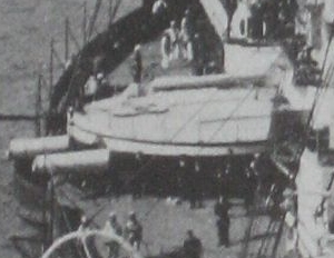 Photograph showing port (left) 16-inch gun turret of British ironclad battleship HMS Inflexible. This is a clip from File:HMS Inflexible 1896.jpg